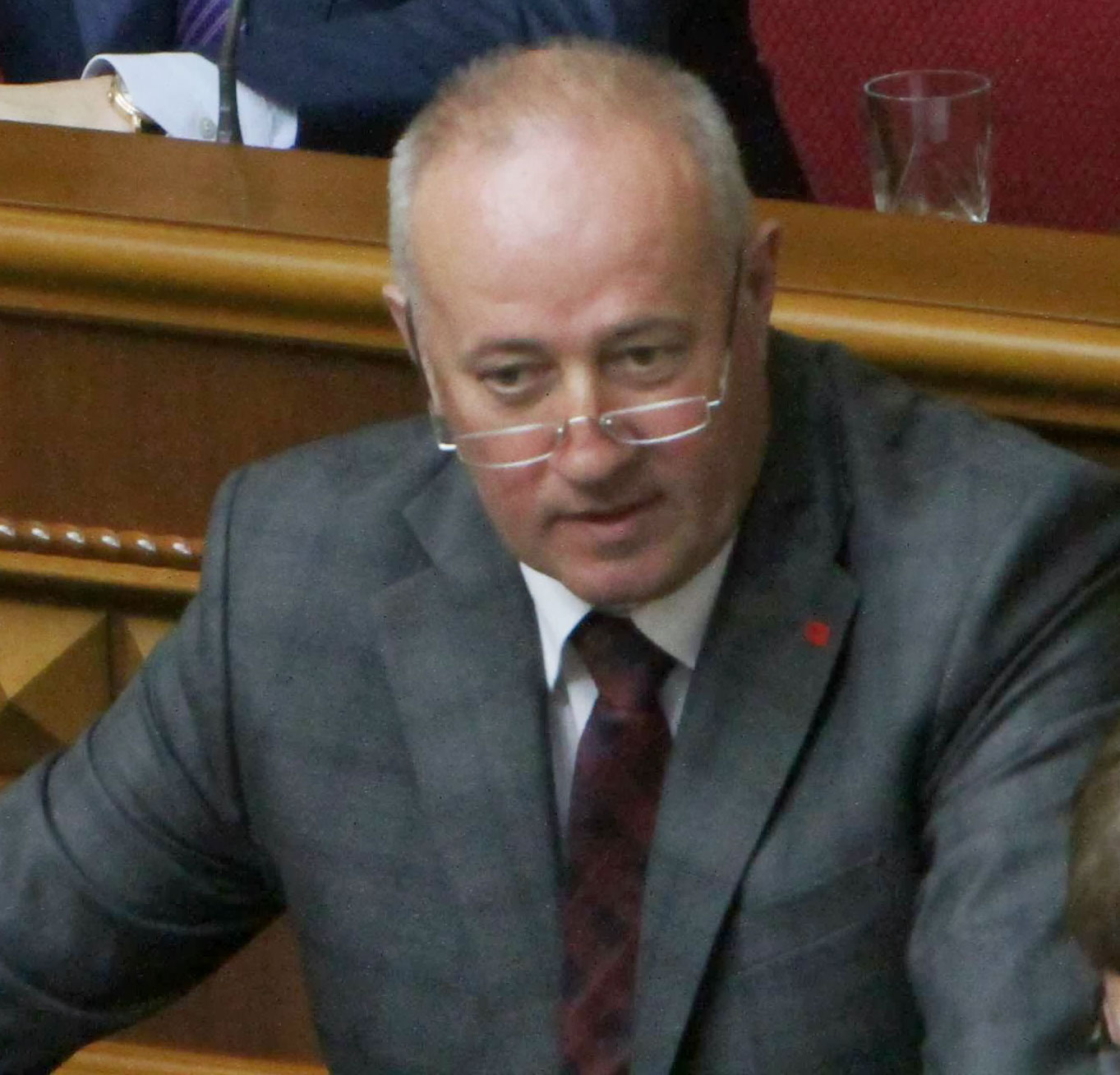 Viktor Chumak, Ukrainian politician, member of the Ukrainian Verkhovna Rada